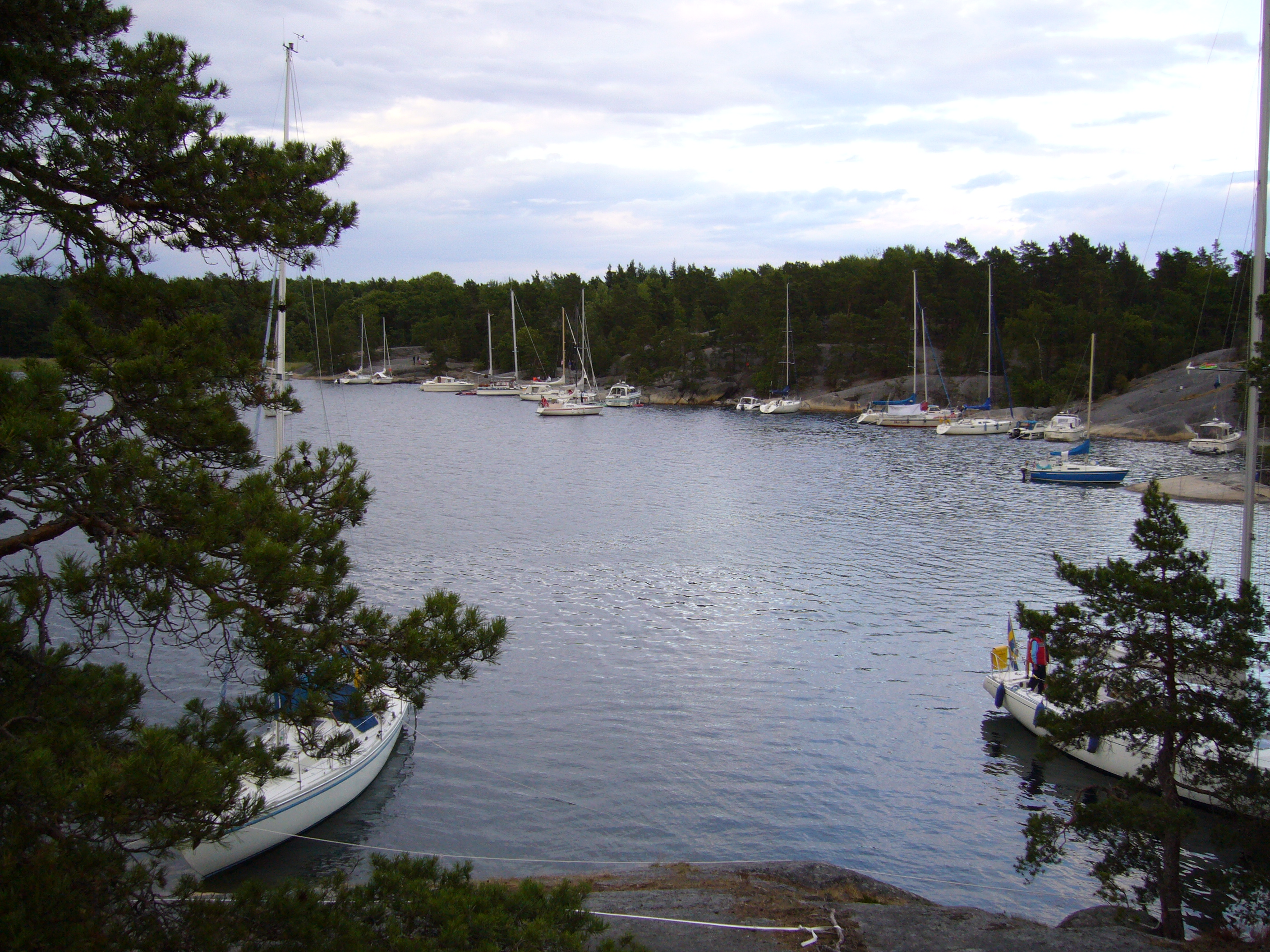 The natural haven at Träskö-Storö, Stockholm archipelago